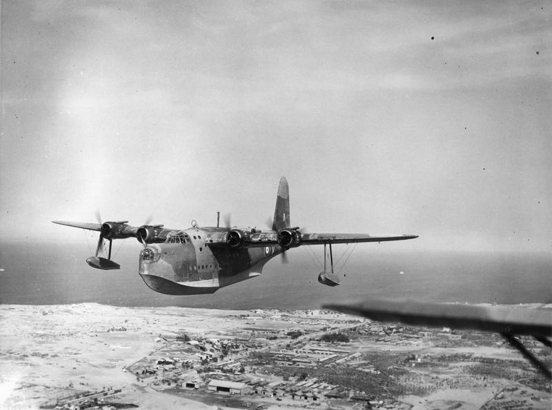 Royal Air Force Operations in the Middle East and North Africa, 1939-1943. Short Sunderland Mark I, N9029 ‘V’, of No. 230 Squadron RAF, flying over the RAF Aboukir, Egypt, after taking off from Aboukir Bay.